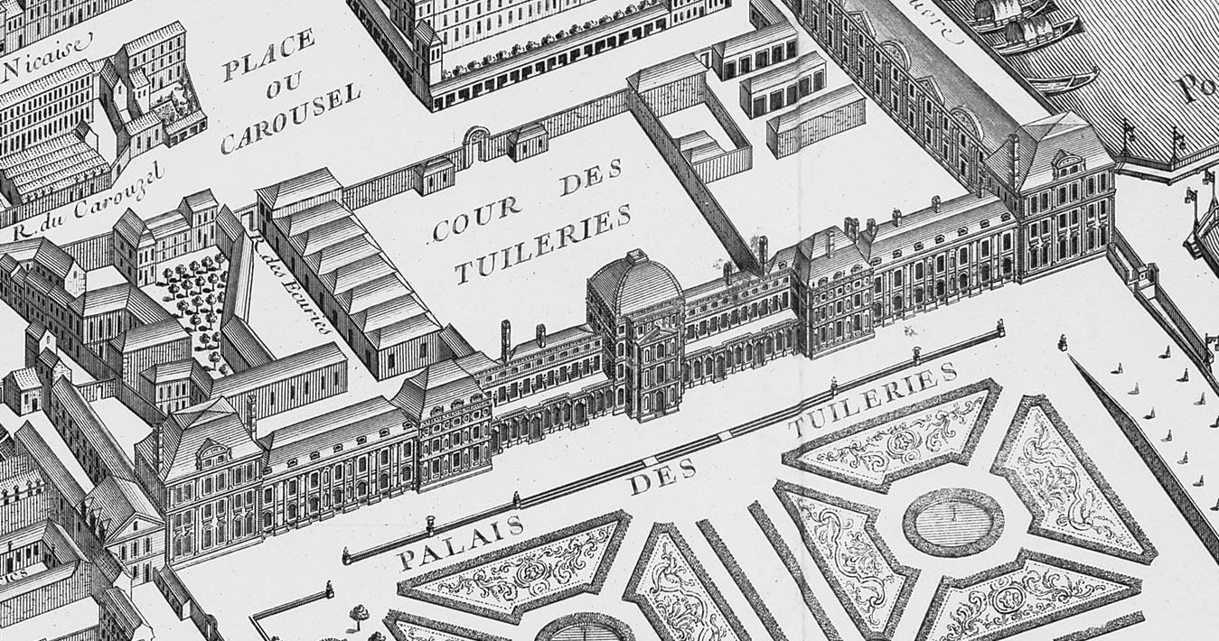 Tuileries palace - Turgot - 1739